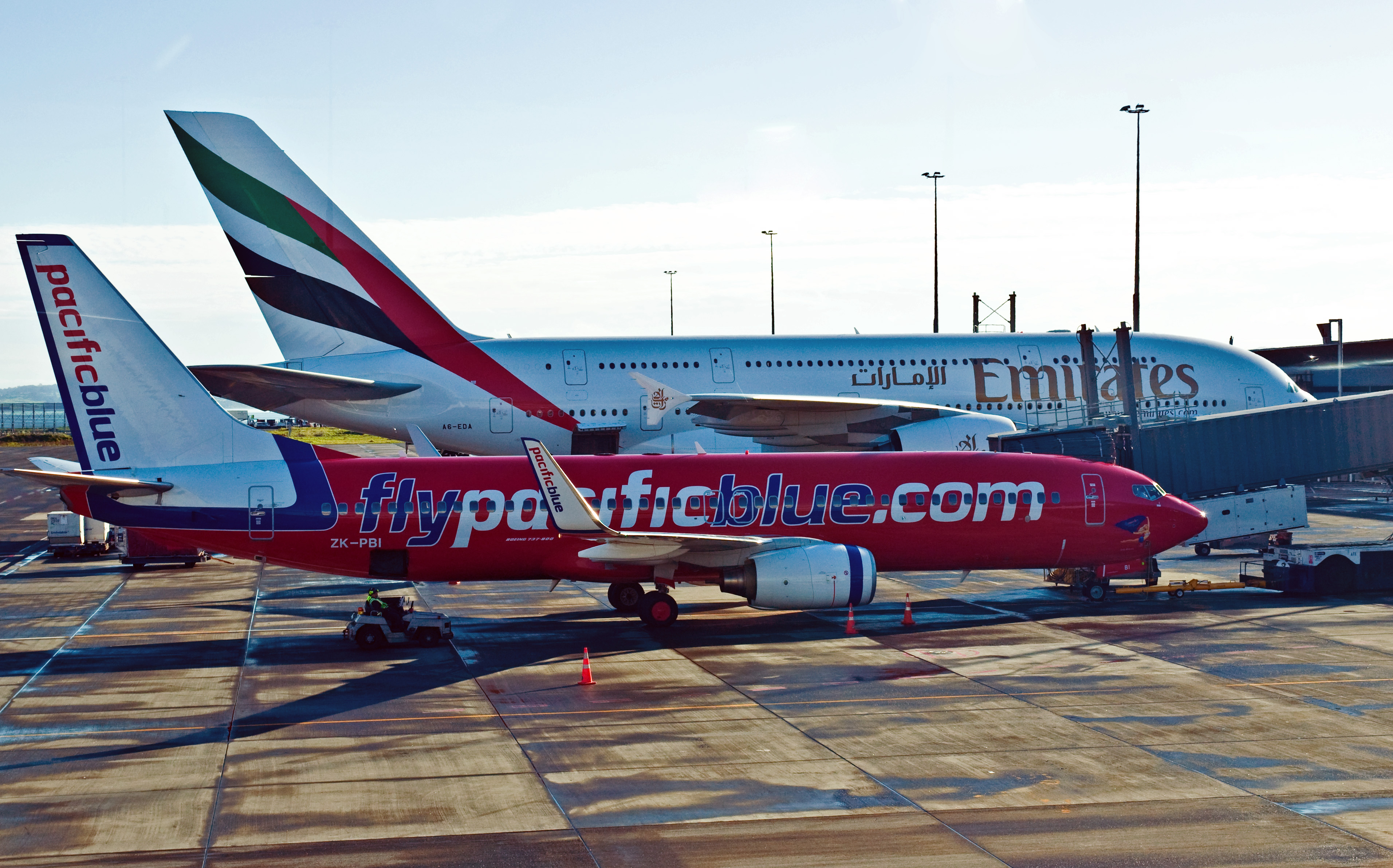 A380 and 737-800, Auckland, 16 Aug. 2010